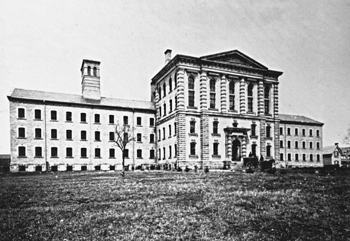 The Don Jail at Toronto, Ontario, constructed shortly before Confederation and still standing today. Toronto, Canada.